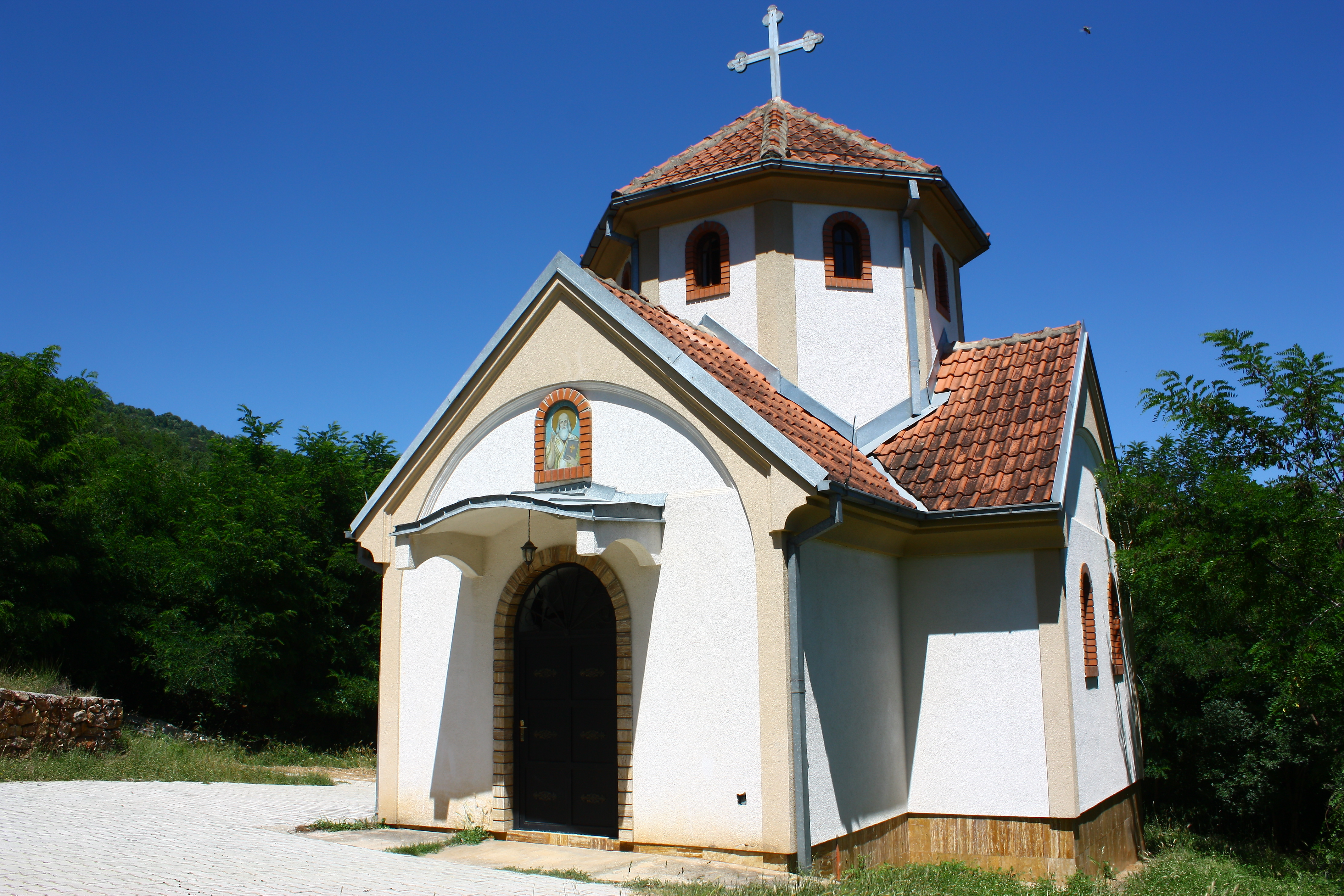 St. Athanasius Church in Džepčište near Tetovo in Macedonia